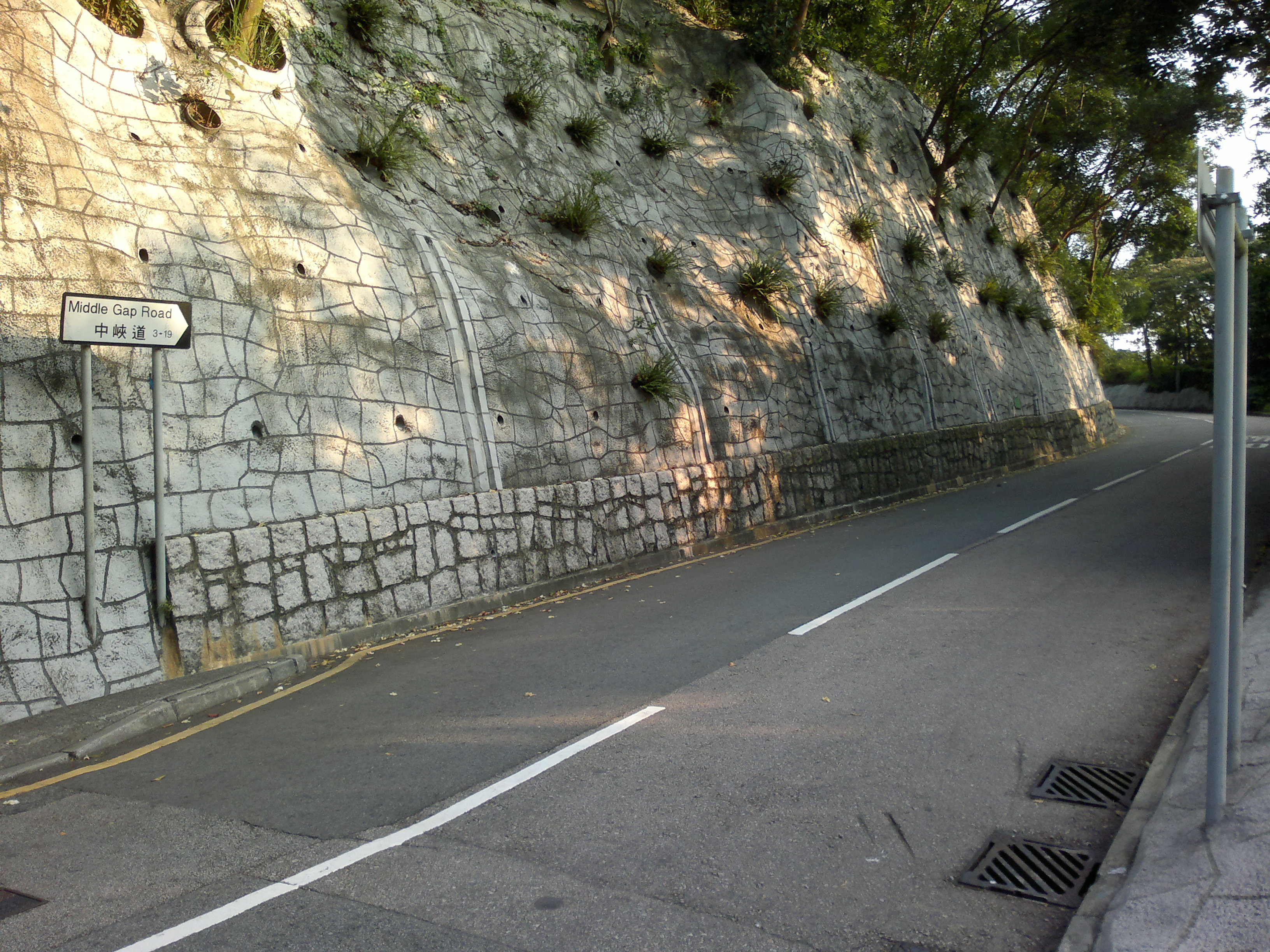 Middle Gap Road at Wan Chai Gap